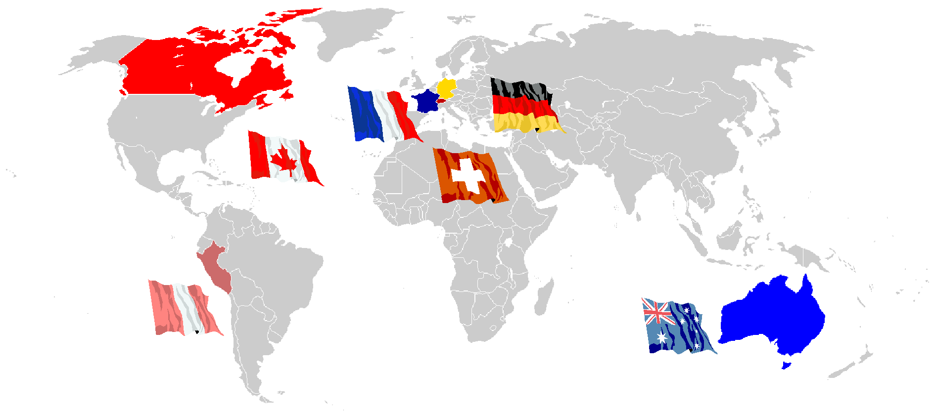 File without country names: The six original candidates for the 2011 Women's Soccer World Cup. (Switzerland, France, Australia und Peru withdrew later – World Cup is to be held in Germany)